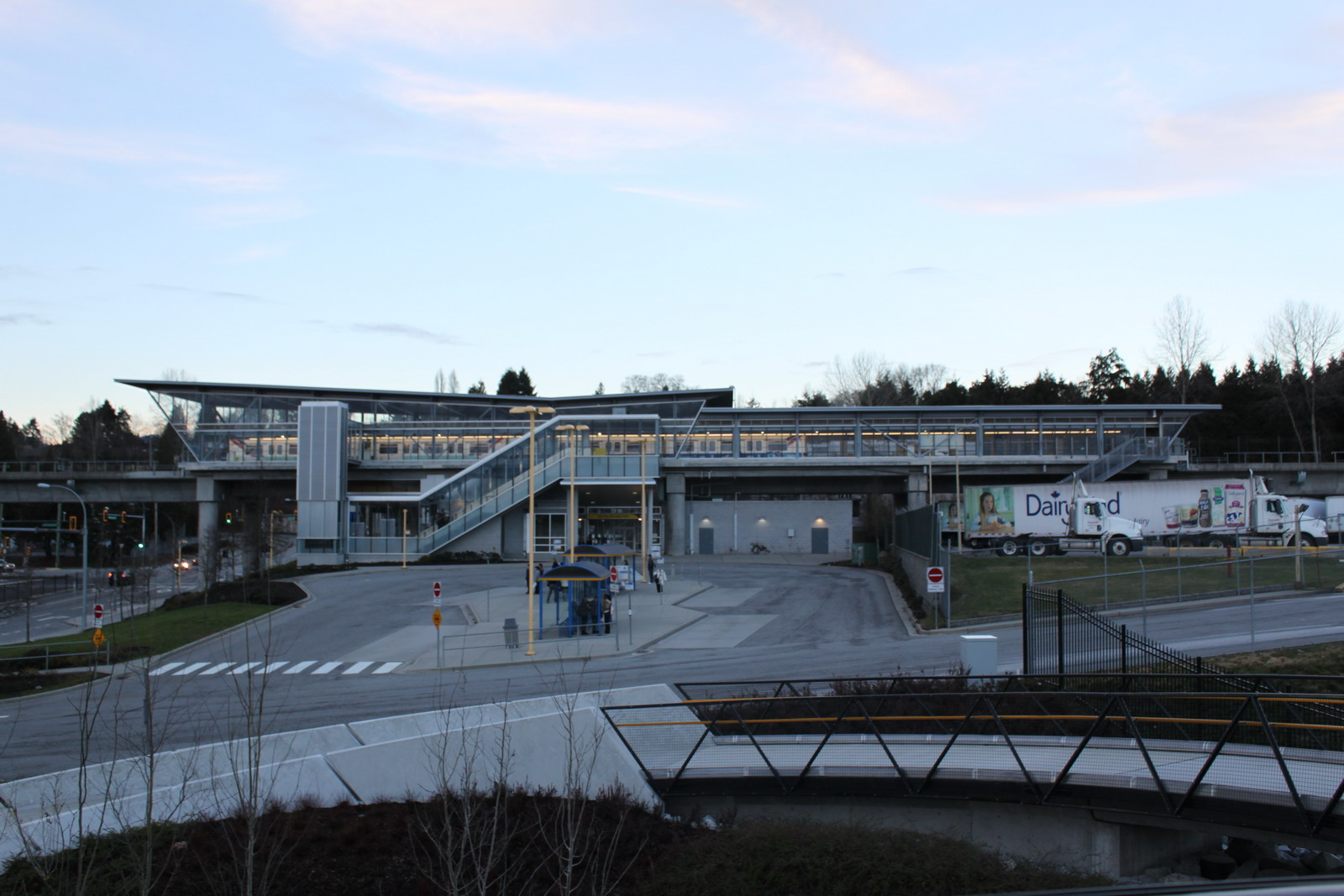 Exterior of Sperling-Burnaby Lake Skytrain Station and its adjacent bus loop